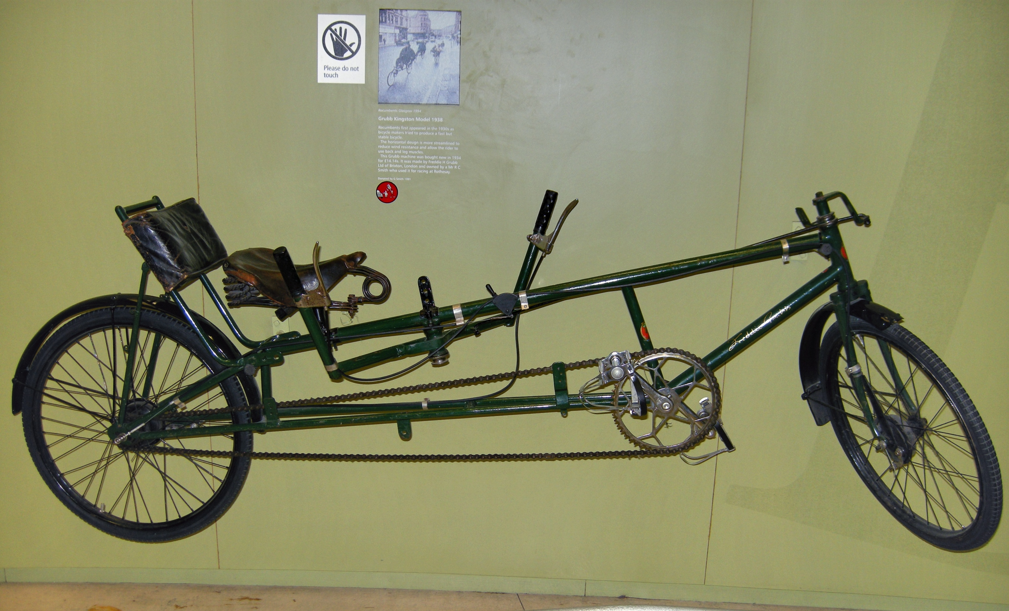 Grubb Kingston recumbent bicycle, England, 1938.